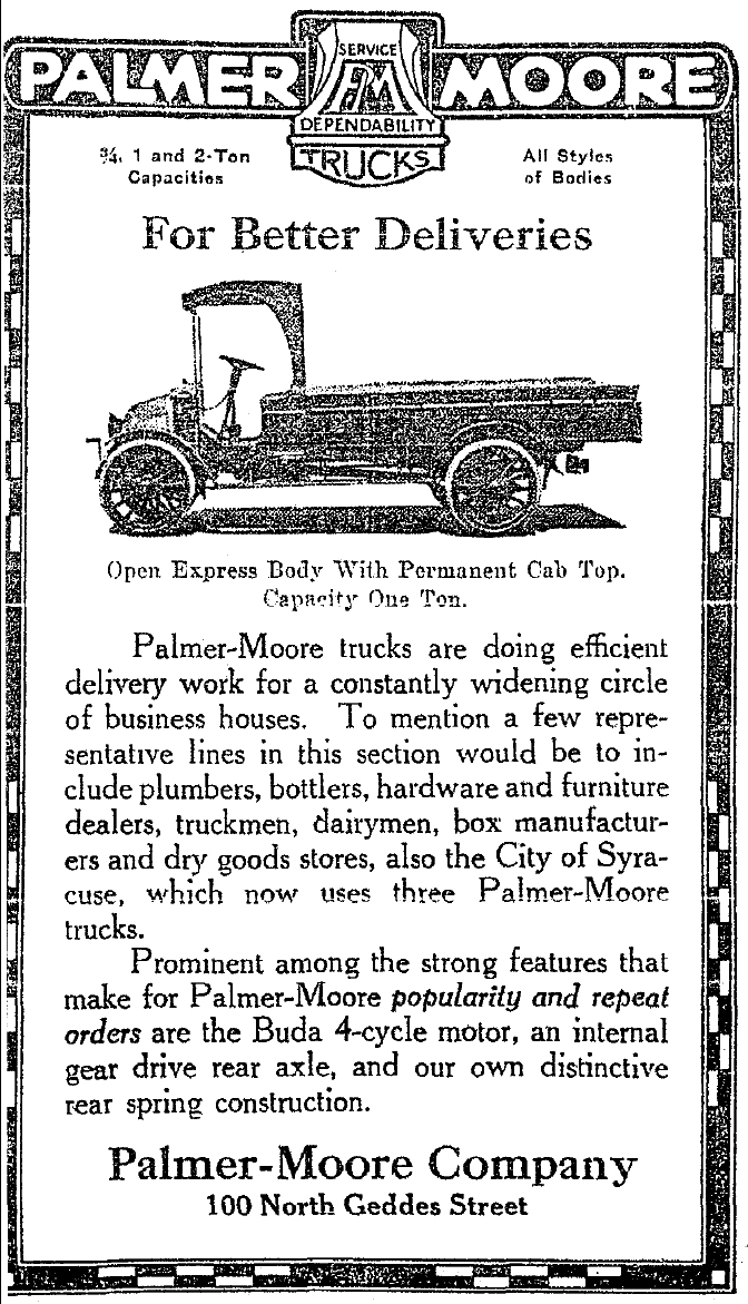 Palmer-Moore Company - Advertisement 1916